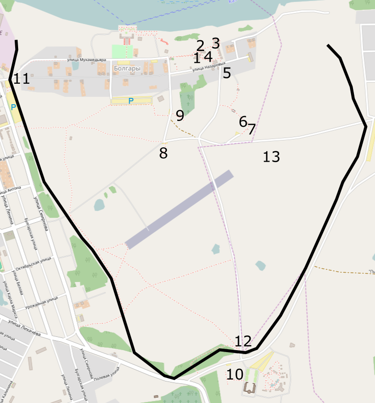 1 - Cathedral Mosque and Big Minaret 2 - Northern mausoleum 3 - Church of the Dormition 4 - Eastern mausoleum 5 - Khan's bath 6 - Khan’s Shrine 7 - Smaller Minaret 8 - White Chamber 9 - Black Chamber 10 - Small City 11 - West Gate 12 - South Gate 13 - Mausoleums Black line - moat and earthwork